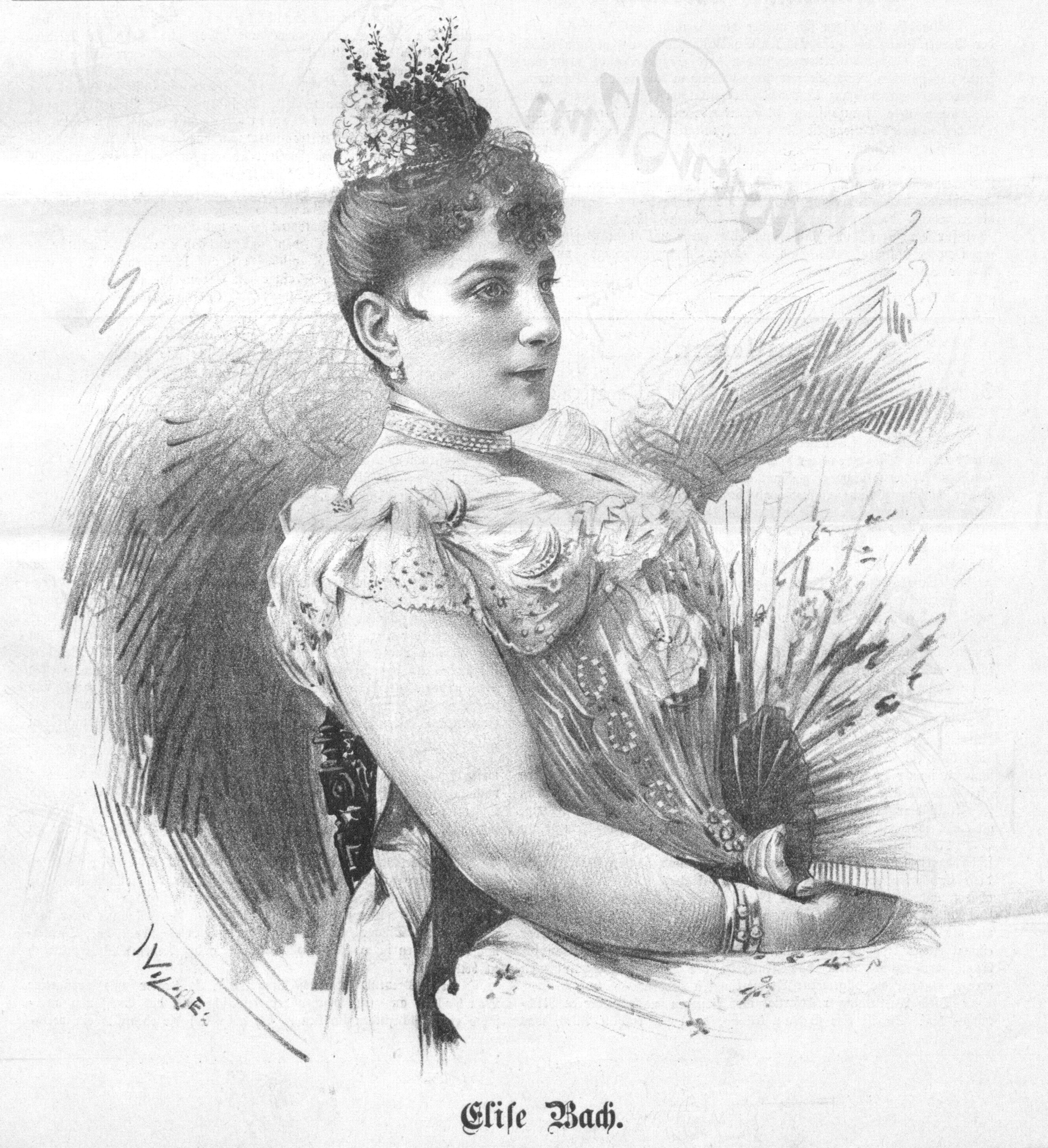 Portrait of Elise Bach (1852-??), Austrian actress